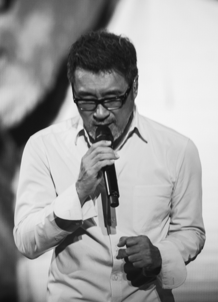 Jonathan Lee at the 2014 concert tour in Nanking